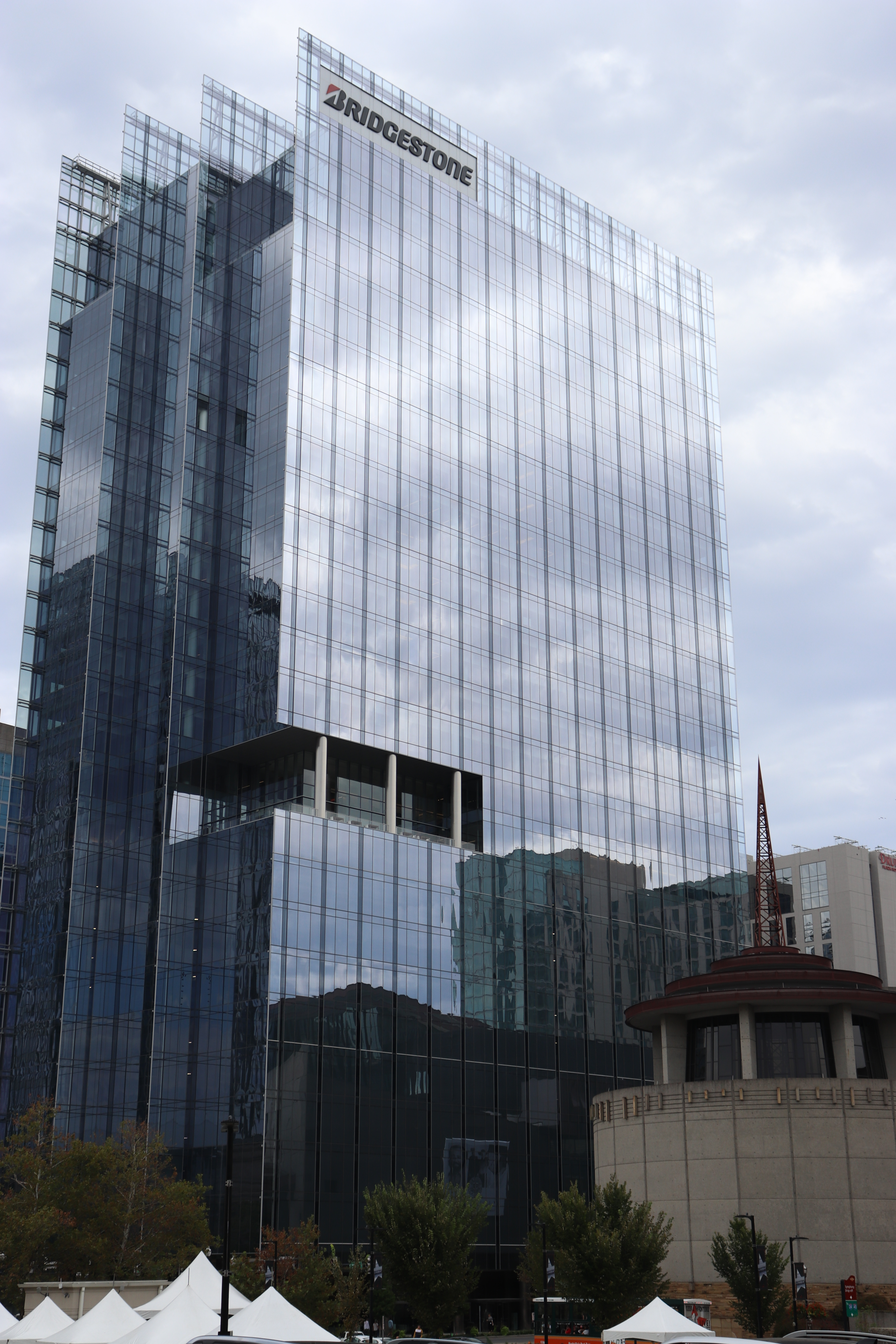 Bridgestone Americas HQ taken from Fifth Avenue in Nashville.